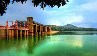 KRP DAM